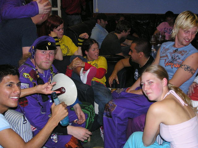 Insparken 2005